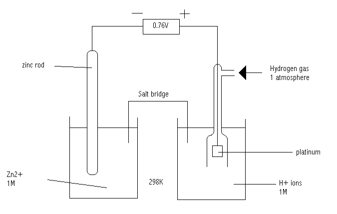 standard electrode potential of Zn2+/Zn half-cell